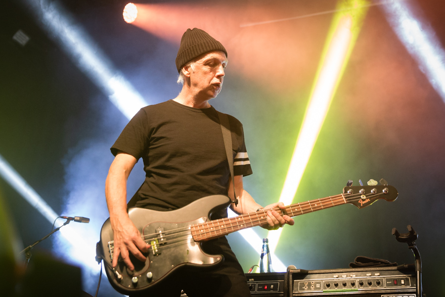 Johnny McElhone with Texas live on stage at Rockefeller Music Hall. The concert took place on 24. September 2018 in Oslo. Lineup: Sharleen Spiteri (vocal) Johnny McElhone (bass guitar) Ally McErlaine (guitar) Eddie Campbell (keyboard) Ross McFarlane (drums) Michael Bannister (keyboard) Tony McGovern (guitar and vocal)